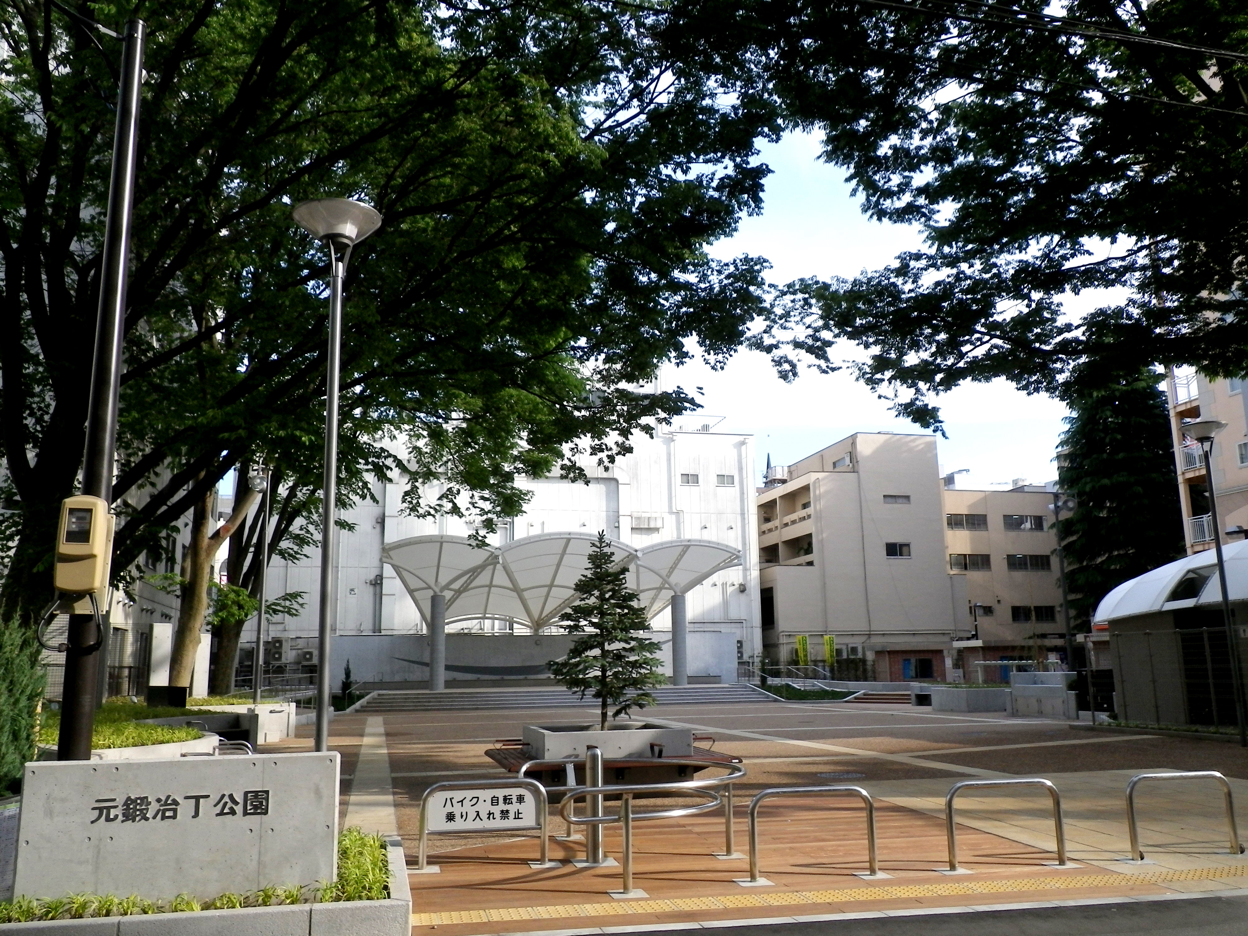 Motokaji-chō Kōen Park viewed from Motokaji-chō Street in Kokubun-chō, Sendai, Japan